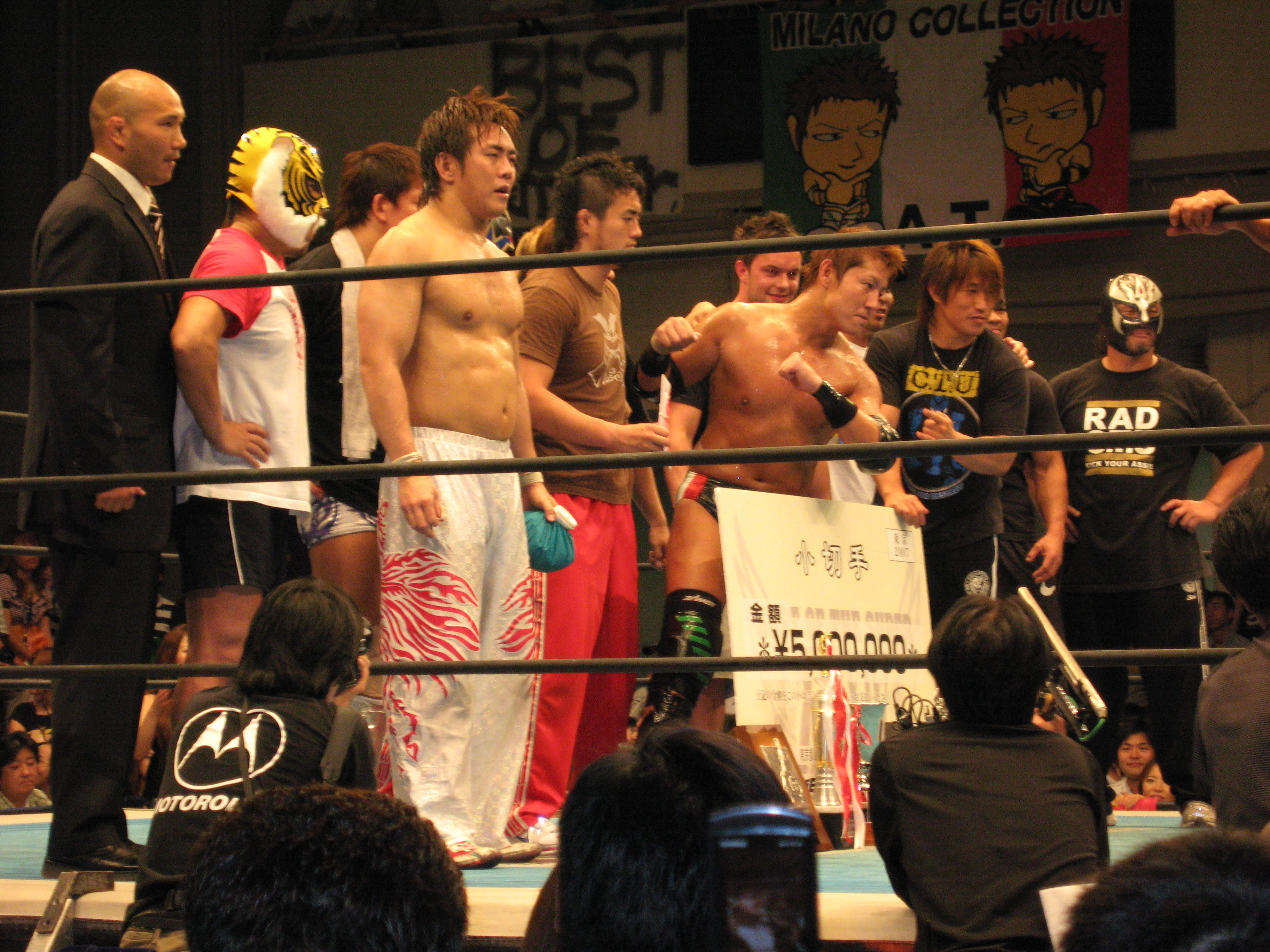 Wataru Inoue (the third from the left) and Milano Collection A.T. (the third from the right) at the Best of the Super Juniors in 2007. Milano enjoys his 5 million yen cheque courtesy New Japan Pro Wrestling. Korakuen Hall, Tokyo, Japan. 6.17.07.